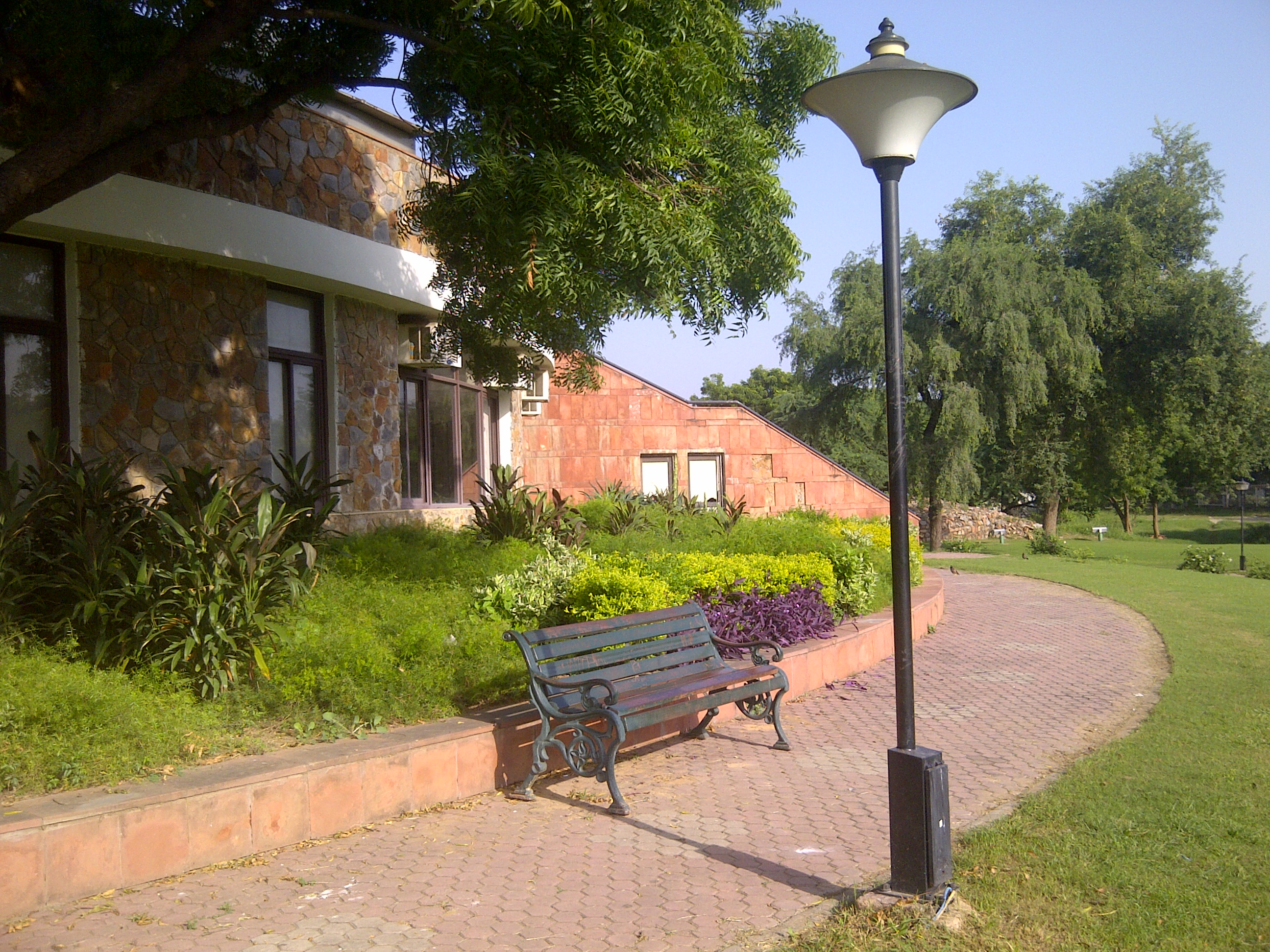 Qila Rai Pitora is one of the seven cities which make today's Delhi. It was also known as Rai Pithora and was founded by Prithviraj Chauhan, the popular hero of the stories of Hindu resistance against Muslim invaders. Prithviraj's ancestors captured Delhi from the Tomar Rajputs who have been credited with founding Delhi. Anangpal, a Tomar ruler possibly created the first known regular defense -work in Delhi called Lal Kot - which Prithviraj took over and extended for his city, Qila Rai Pithora. The ruins of the fort ramparts are still partly visible in the area around Qutab Minar.